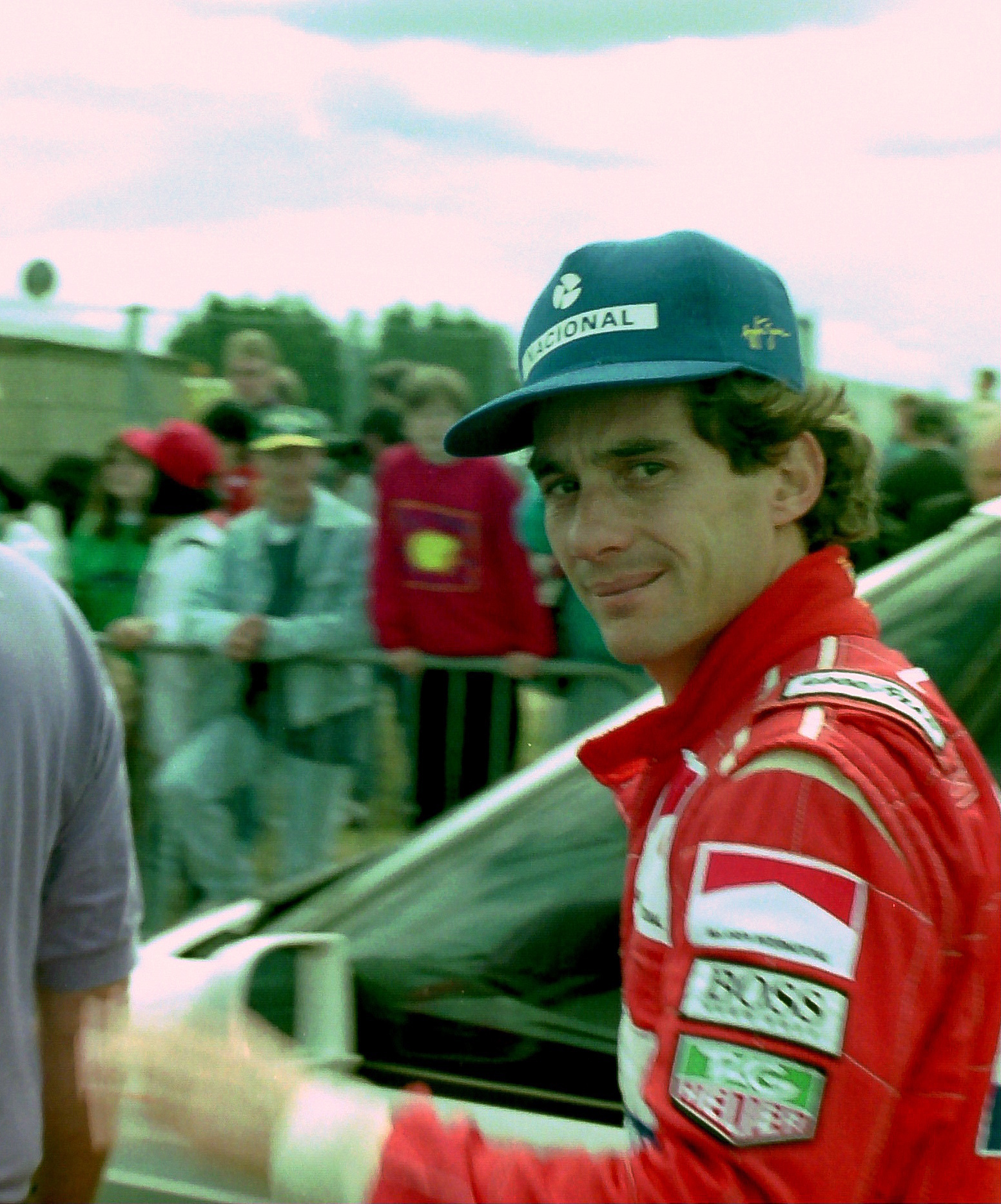 Ayrton Senna in the paddock before the 1993 British Grand Prix